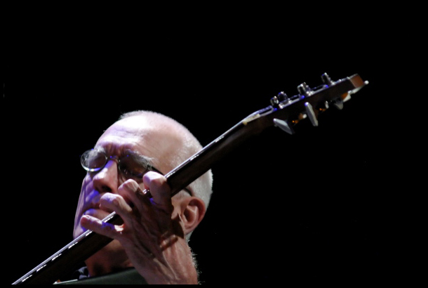 Steve Swallow